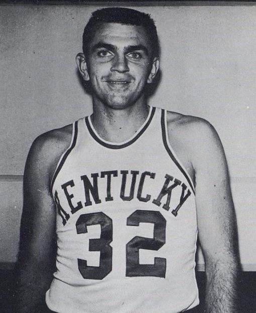 University of Kentucky basketball player John Crigler from the 1958 "Kentuckian" yearbook